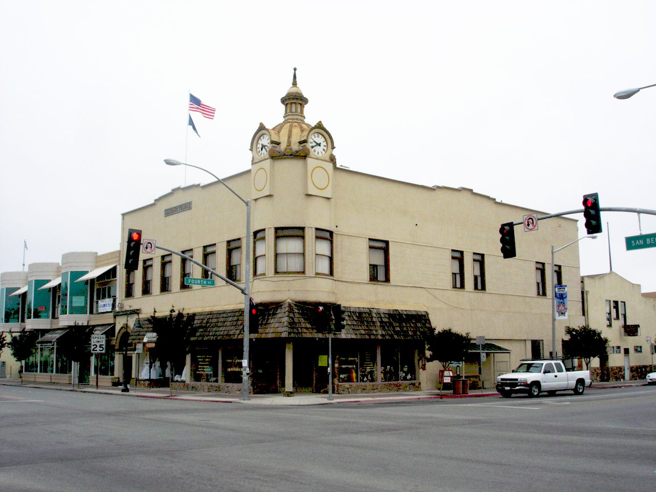 The Eastern Star Masonic Temple building, and the northeast corner of Fourth and San Benito Streets, Hollister, California.